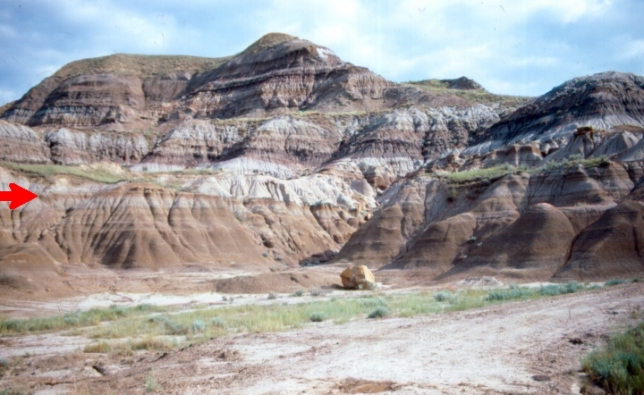 Bearpaw and Horseshoe Canyon fromations near Drumheller, Alberta. The contact between the two formations is approximately at the red arrow. – Contact (red arrow) between the underlying marine shales of the Bearpaw Formation and the coastal Horseshoe Canyon Formation. Coal beds (black bands) are common in the Horseshoe Canyon Formation and were formed in coastal swamps.